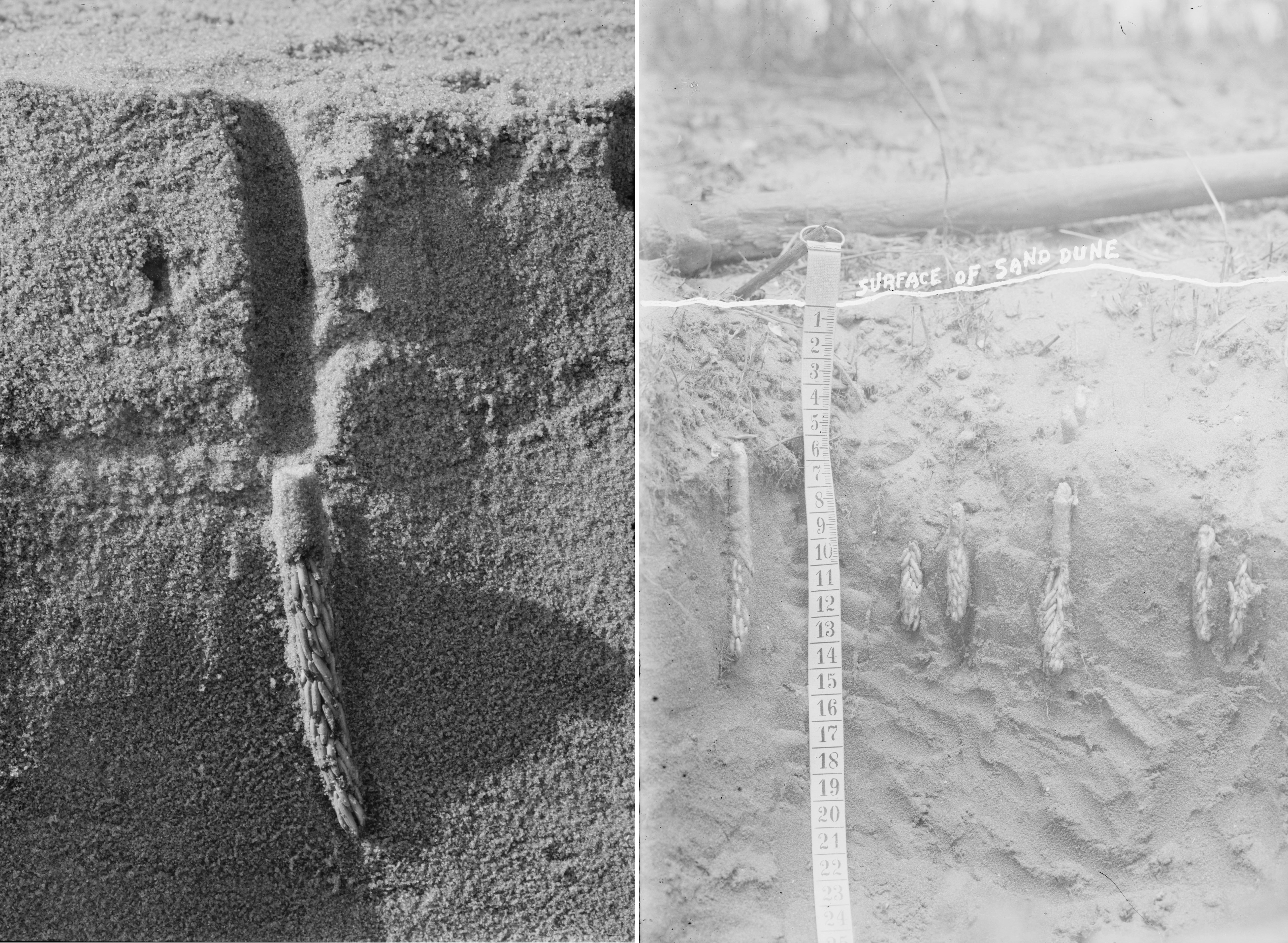 Packages of locust eggs, laid deep in the sand. Probably from the desert locust (Schistocerca gregaria). Photographed after removing a layer of sand. Palestine, during the plague of 1930.